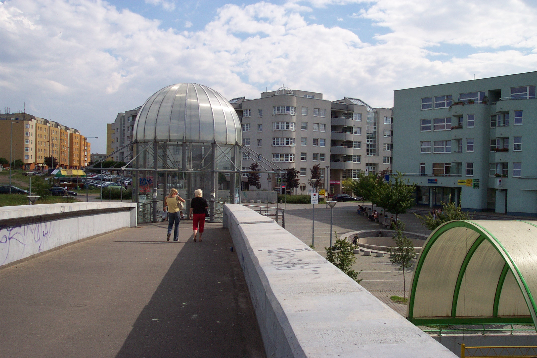 Prague-Černý Most area